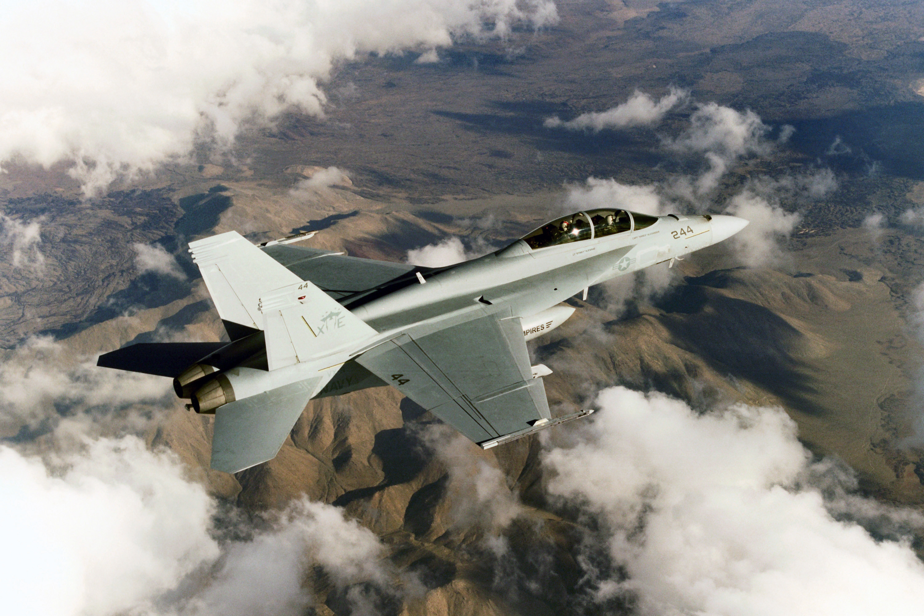 A US Navy (USN) F/A-18F Super Hornet aircraft assigned to the Air Test and Evaluation Squadron Nine (VX-9) conducts an operation test mission flight over the Coso Mountain Range, at China Lake, California (CA). This aircraft is one of the first Super Hornets equipped with the revolutionary new APG-79 Active Electronically Scanned Array (AESA) radar, which could eventually give naval aircrews a quantum leap in tactical capability over older aircraft equipped with mechanical radar systems.Location: CHINA LAKE, CALIFORNIA (CA) UNITED STATES OF AMERICA (USA)